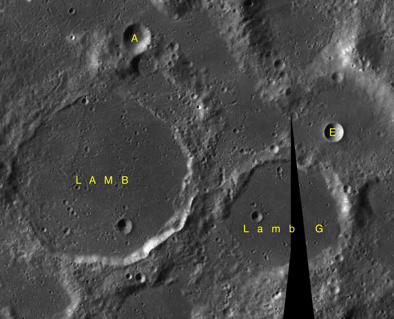 Parts of the charts LAC-116, LAC-117 used for the presentation